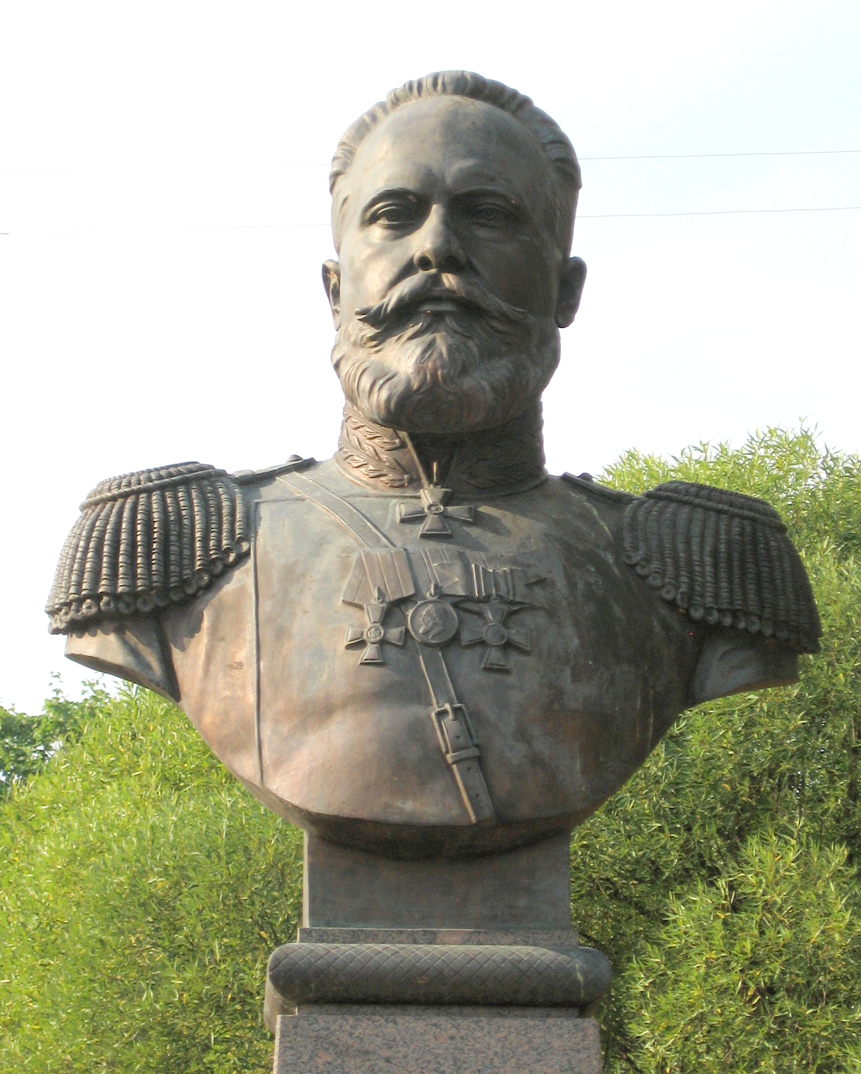 Monument to Sergej Mosin in Sestroretsk